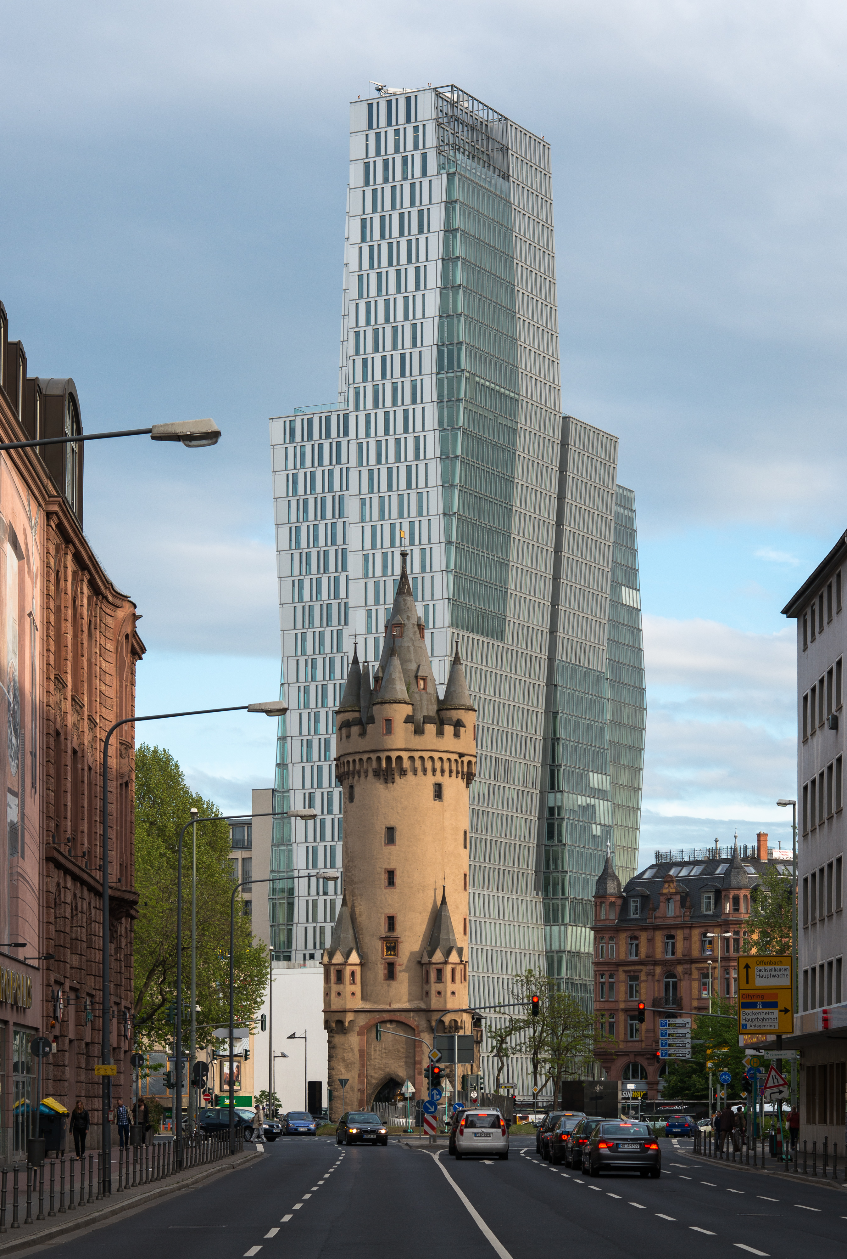 Frankfurt am Main, Thurn-und-Taxis-Platz 6, Nextower (as seen from North) behind the historic Eschenheimer Tower. 136 meter tall office tower from 2009